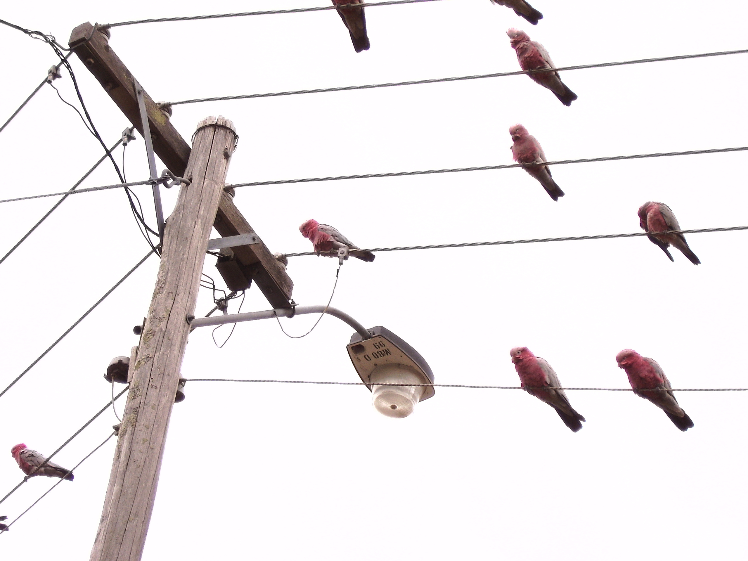 A flock of pink and grey galahs resting on power lines. Image edited to change exposure and saturation, and remove blue tinge.